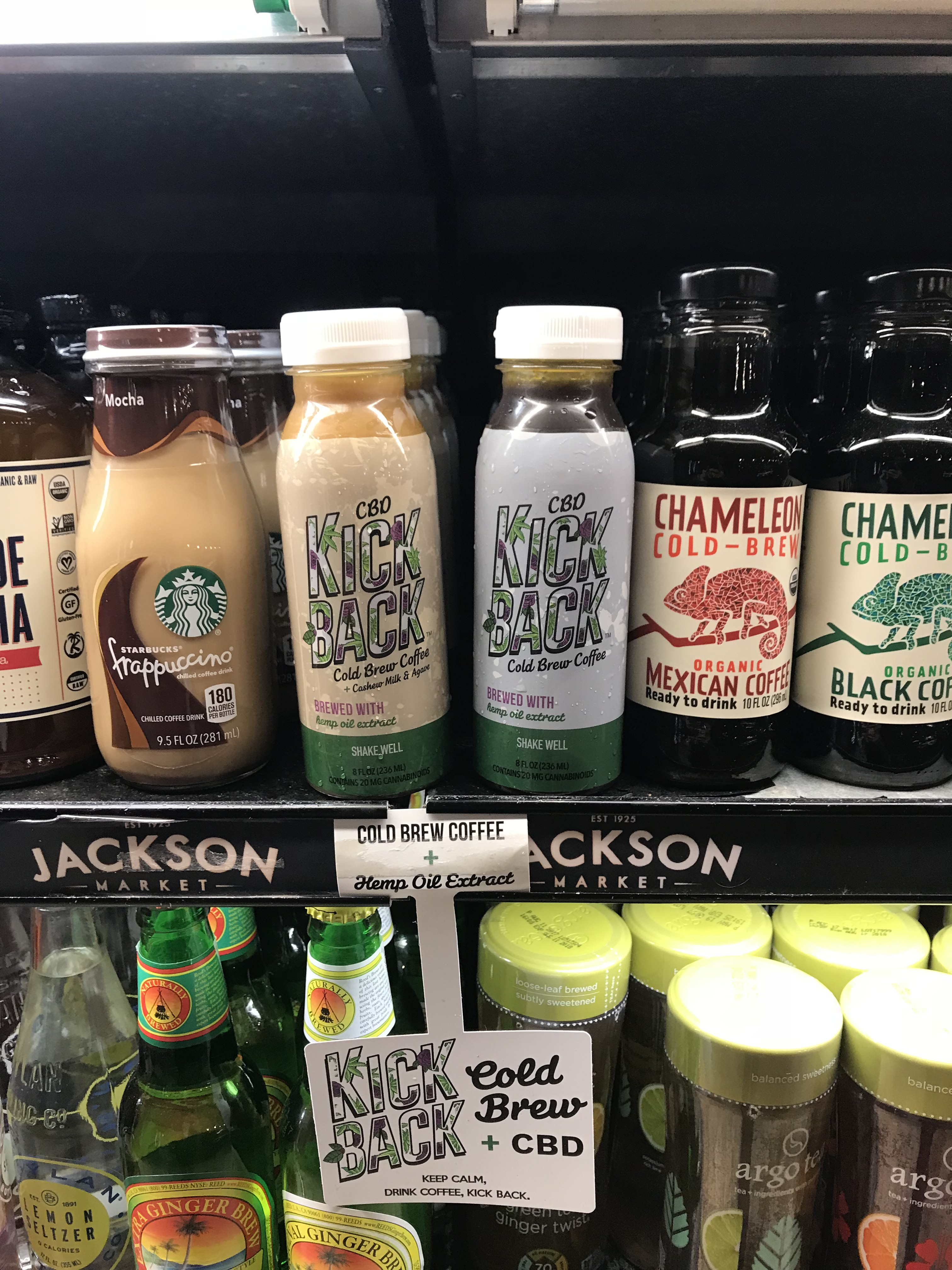 CBD-infused cold brew coffee at a grocery store in Los Angeles, California.